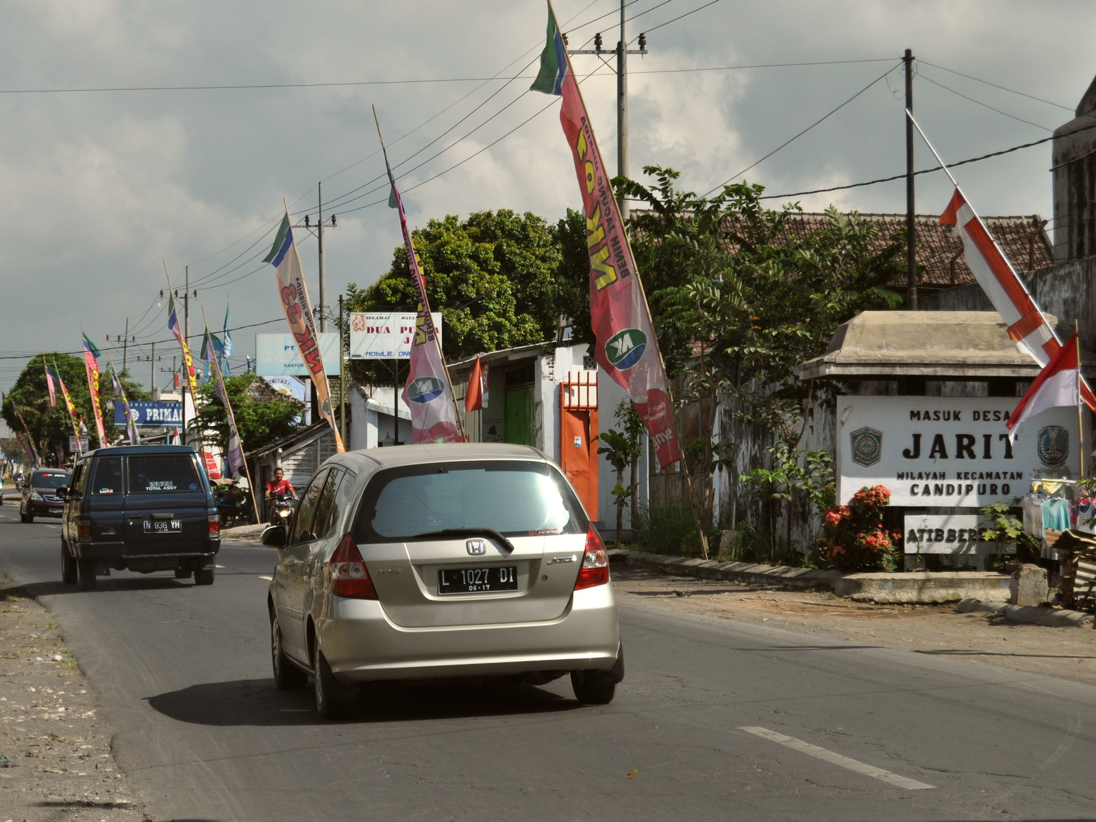 Signboard of entering Jarit Village, Lumajang, East Java.